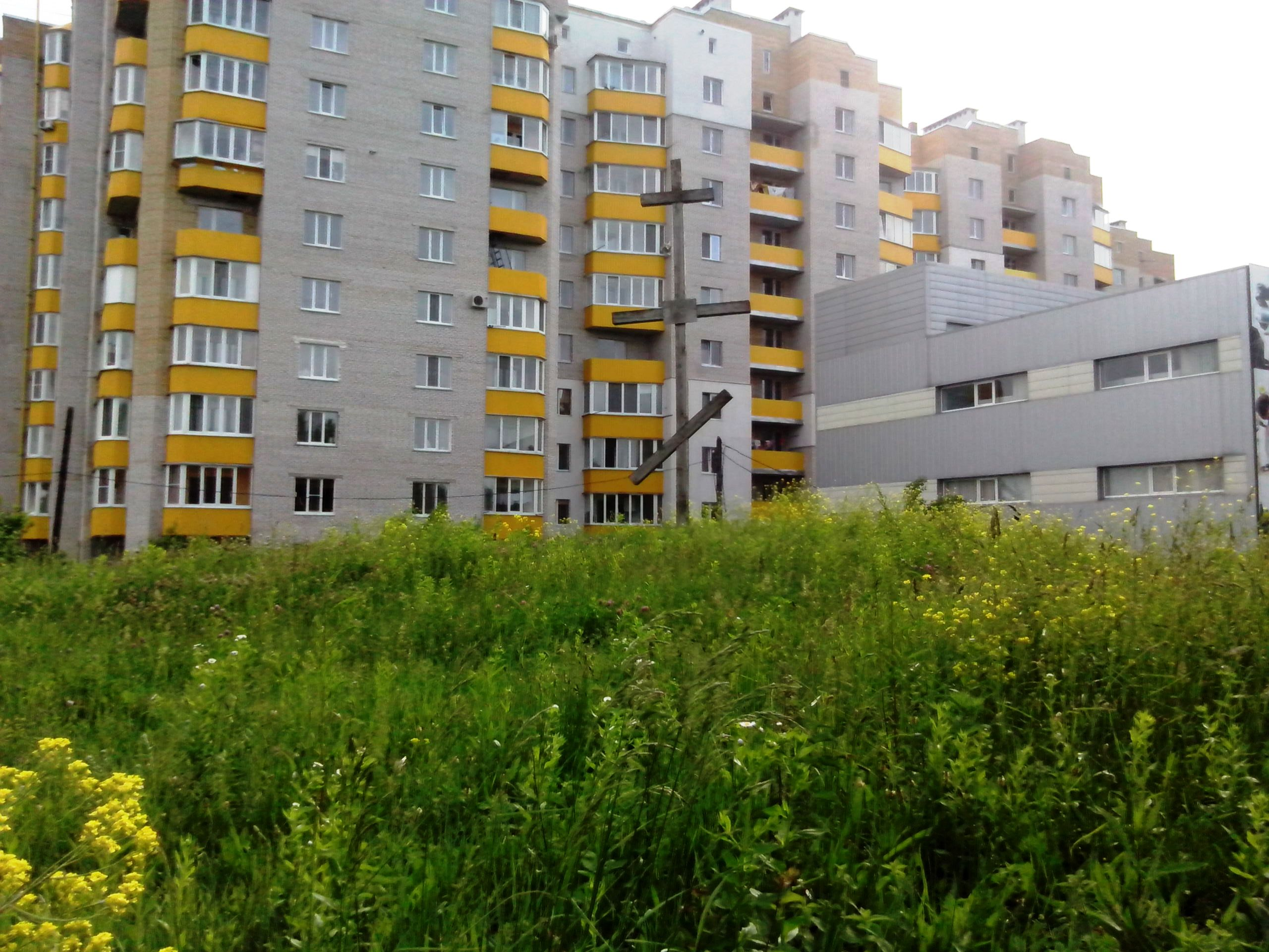 Scythia Grave in Khmelnytsky